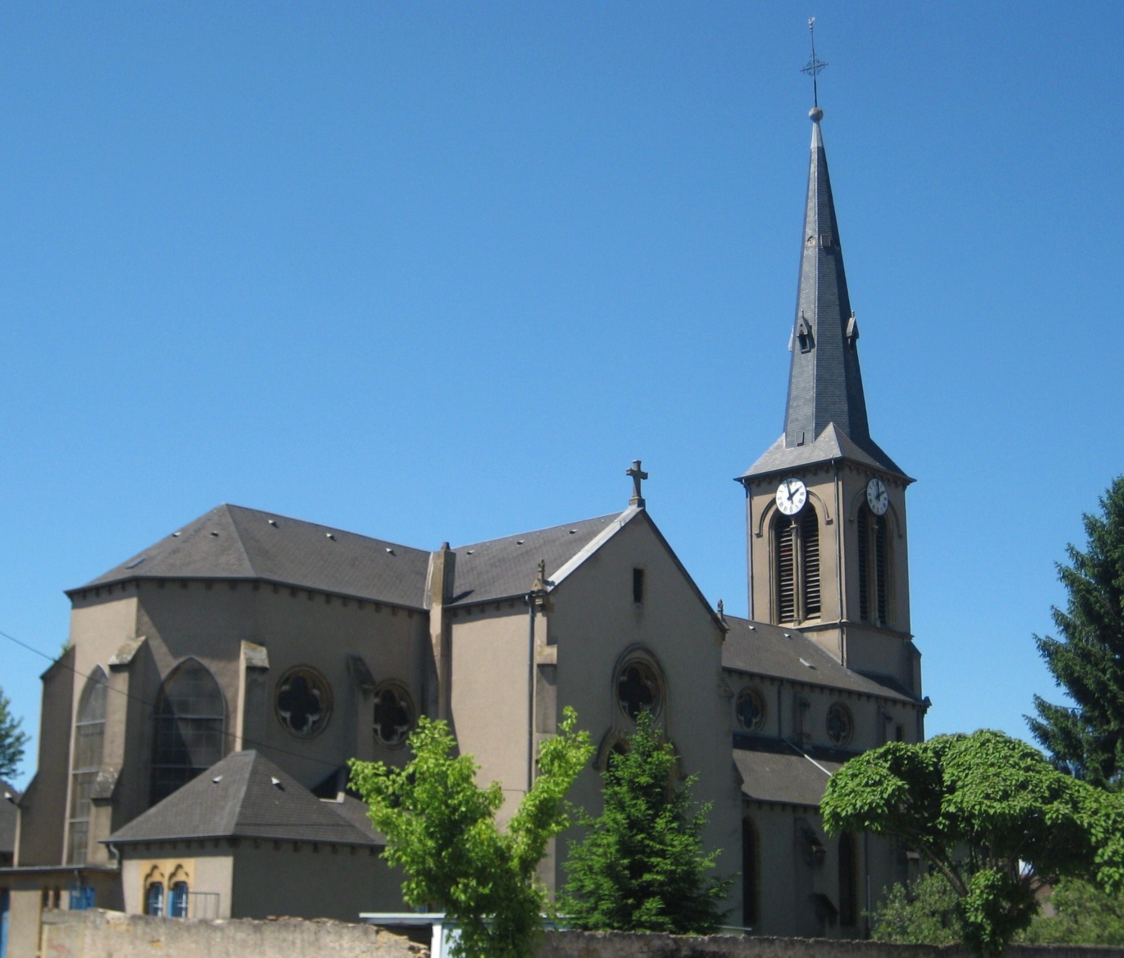 Description Église Sainte-Agathe de Florange Date22 May 2009Sourcemon appareil photoAuthorAimelaime Église Sainte-Agathe de Florange